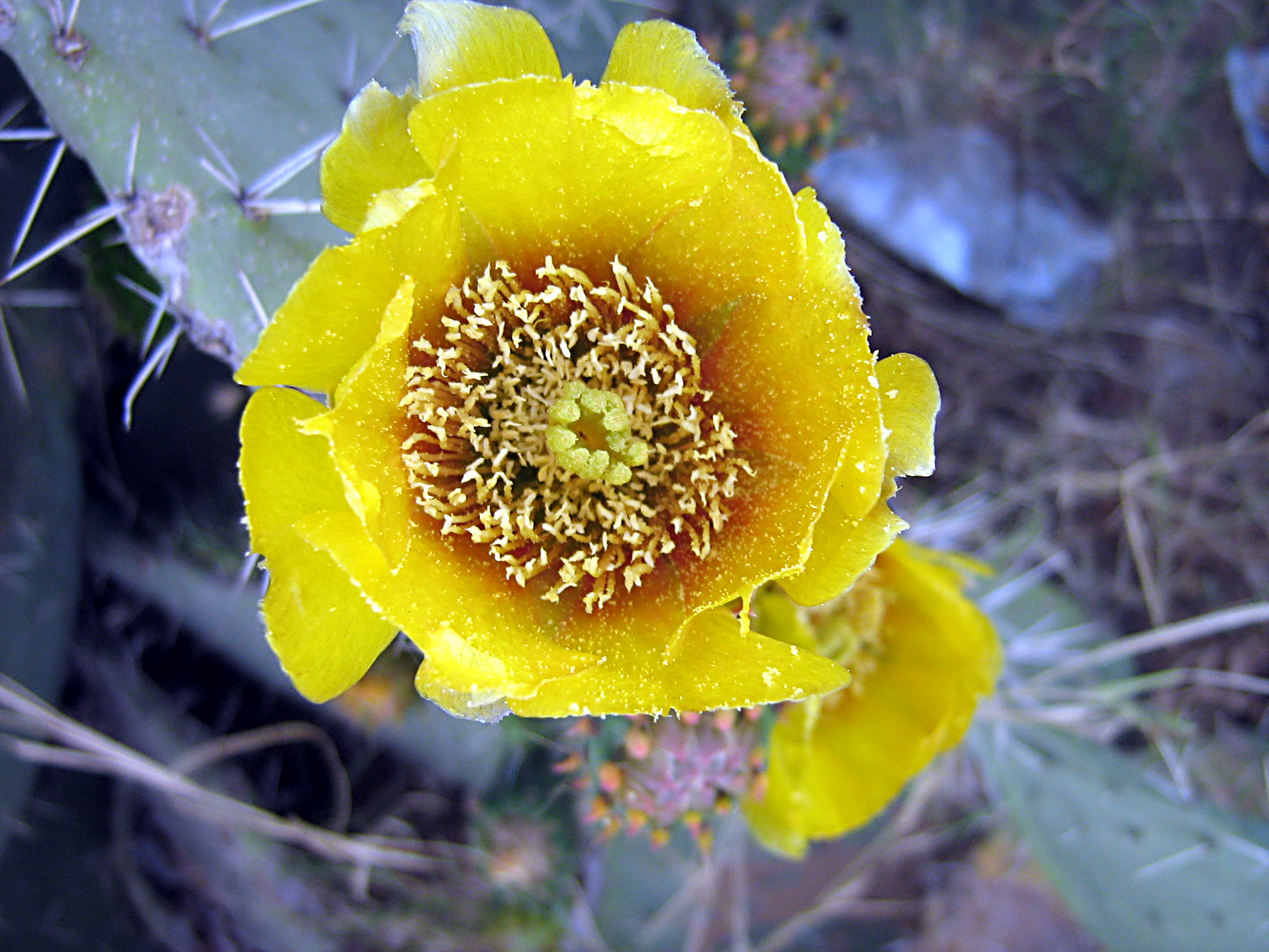 Opuntia.